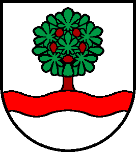 Coat of arms of Kestenholz, Canton Solothurn